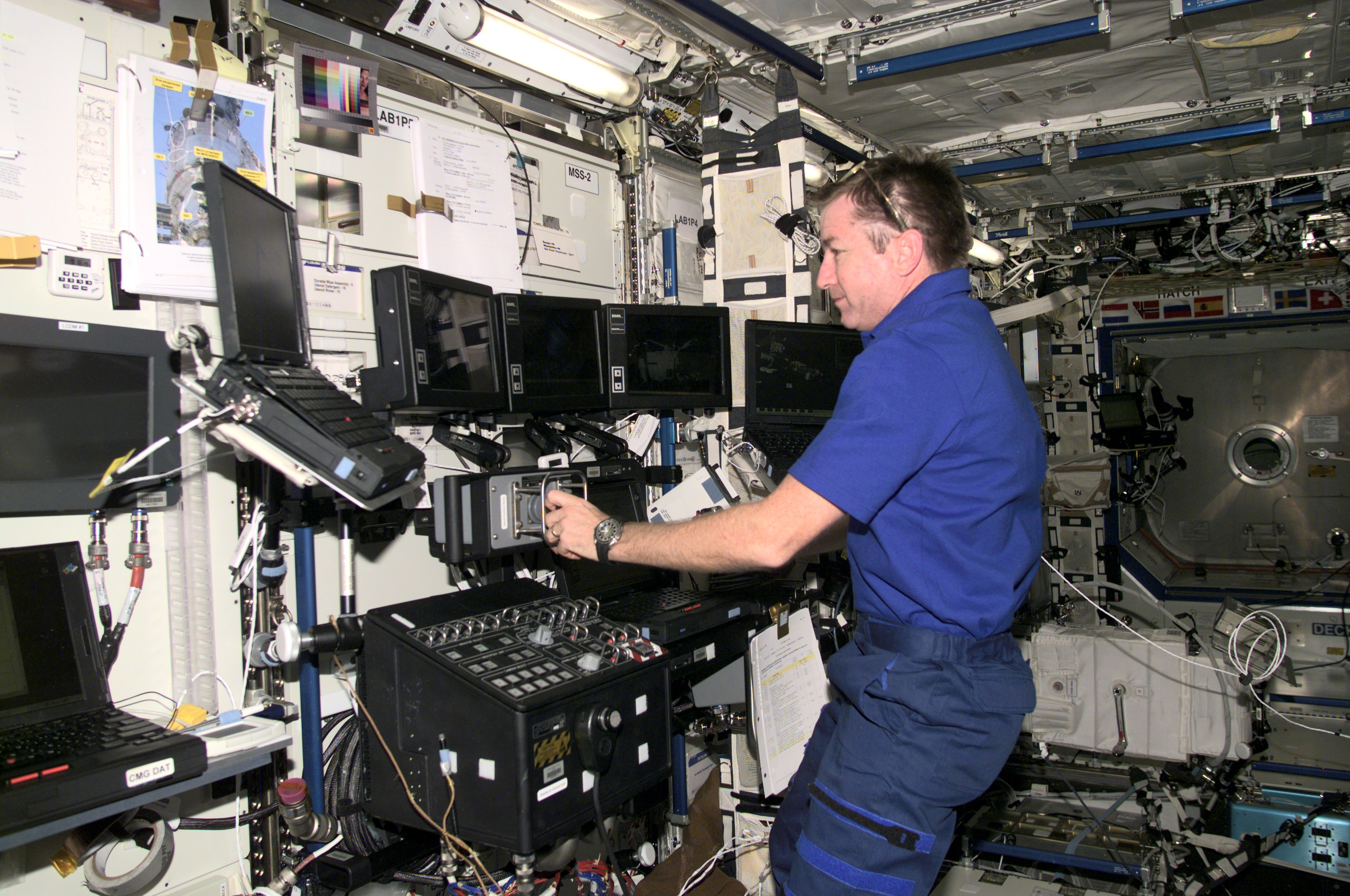 Astronaut Frank L. Culbertson, Jr., Expedition Three mission commander, works the controls of the Canadarm2, or Space Station Remote Manipulator System (SSRMS) in the Destiny laboratory on the International Space Station (ISS).